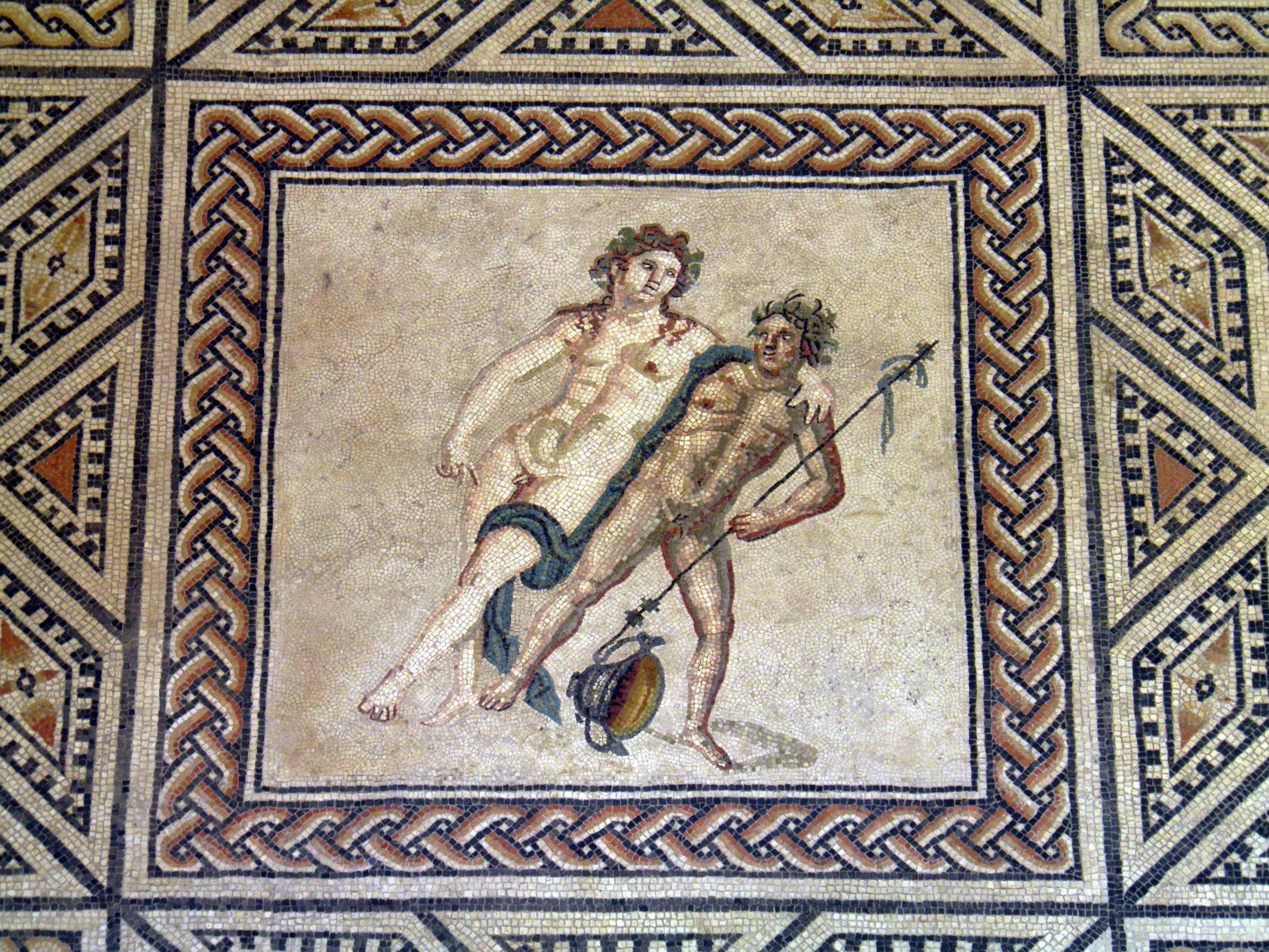 Central panel of the Dionysus Mosaic, showing a drunken Dionysus (Bacchus) needing support from a friend, Dionysus mosaic, from around A.D. 220/230, Romisch-Germanisches Museum, Cologne